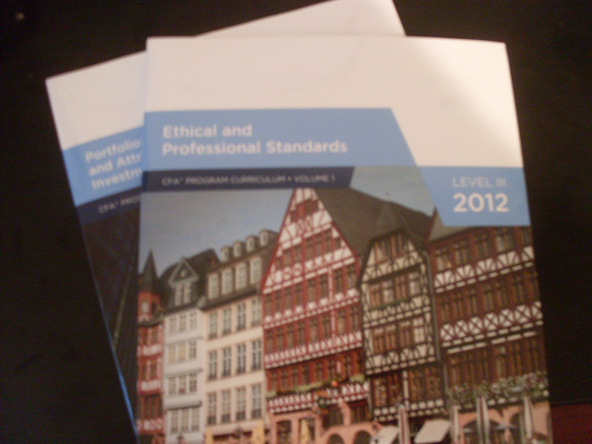 Picture of 2012 CFA Level 3 curriculum.